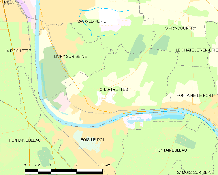 Map of French municipality Chartrettes